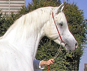 pure-bred Arabian stallion LA MIRAGE